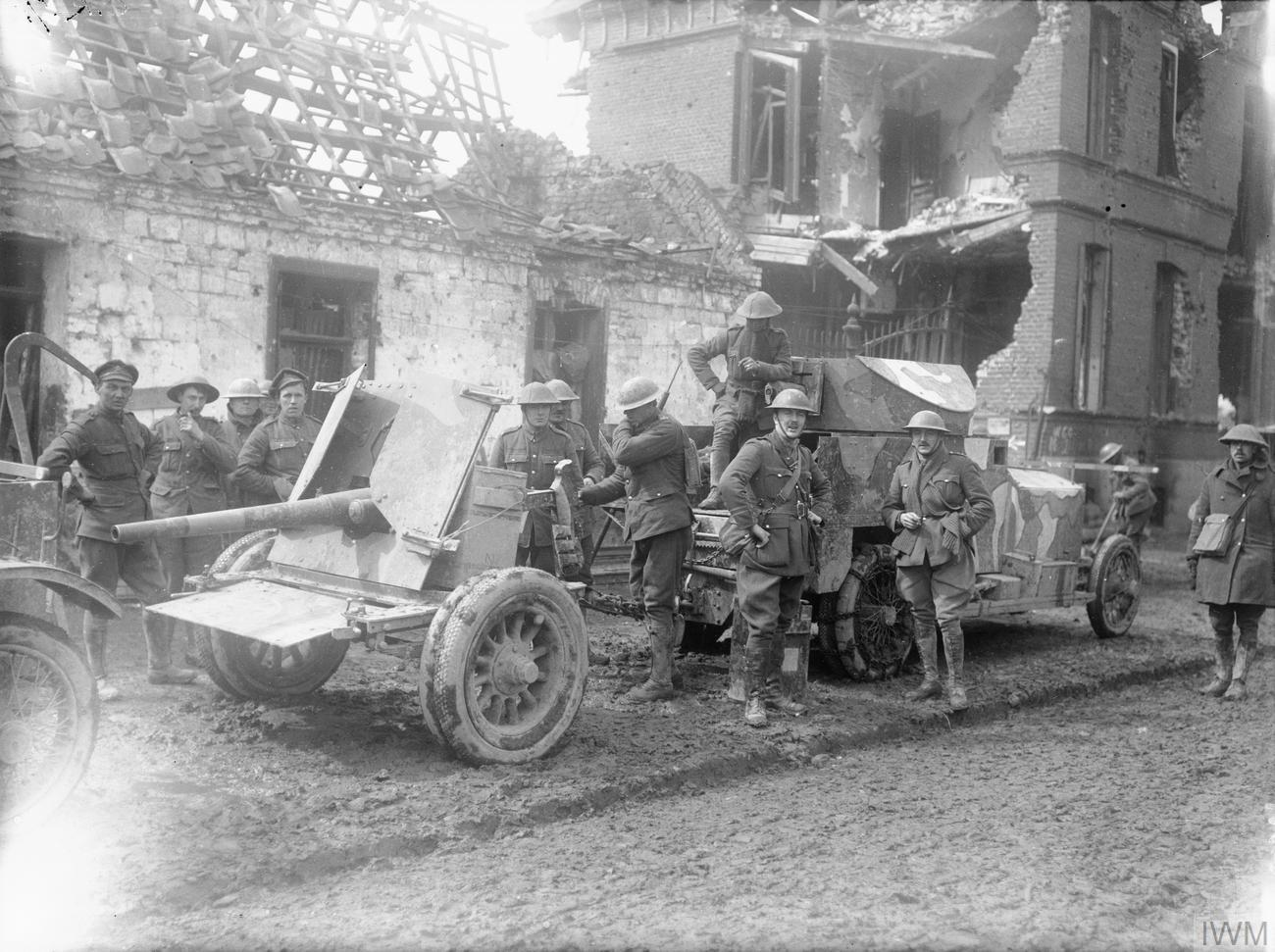 Camouflaged British armoured car and 3-pounder Hotchkiss gun on trailer.